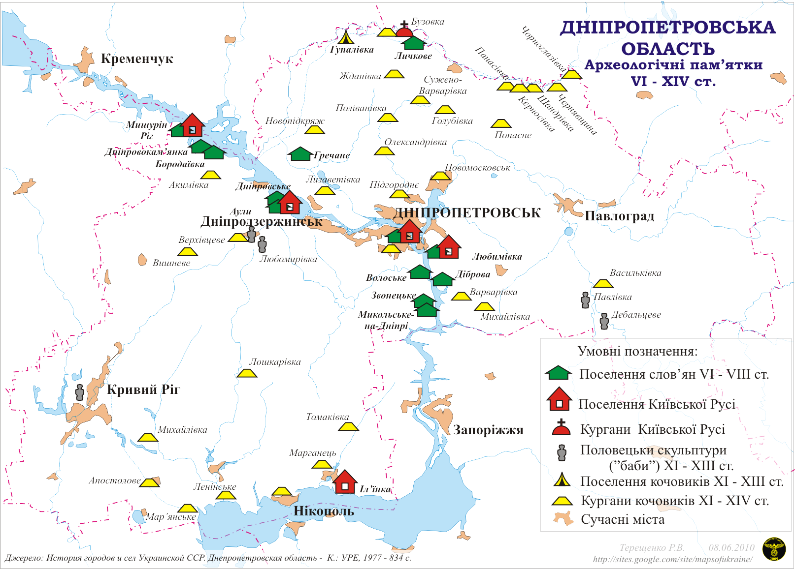 Dnipropetrovsk region. Archaeological sites Ages 7-10